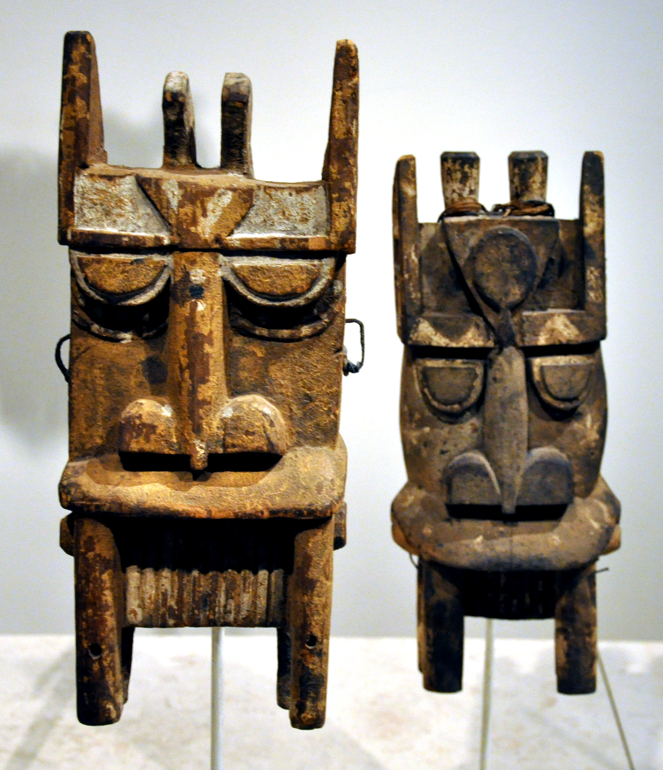 British Museum referenceAf1950,45.216Detailed descriptionOtobo (hippopotamus) mask, Kalabari people, NigeriaLocationRoom 25 British Museum referenceAf1950,45.217Detailed descriptionOtobo (hippopotamus) mask, Kalabari people, NigeriaLocationRoom 25